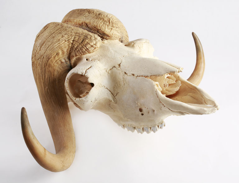 A Musk ox skull in the permanent collection of The Children’s Museum of Indianapolis.